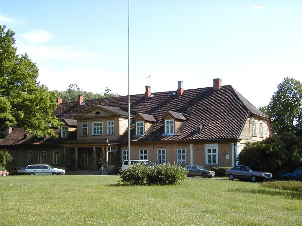 Smiltene Manor